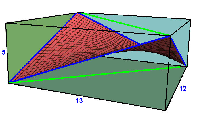 Saddle_rectangle image